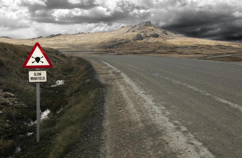 Minefield warning road sign in the Falkland Islands